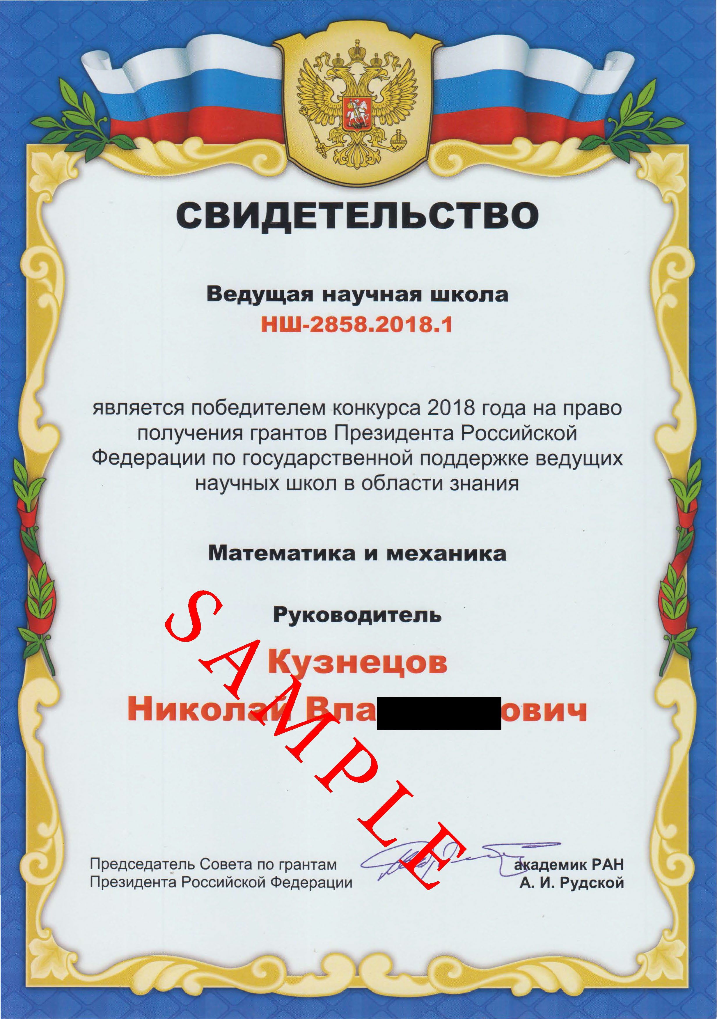 Certificate, grant of the President of the Russian Federation to support leading scientific schools, 2018